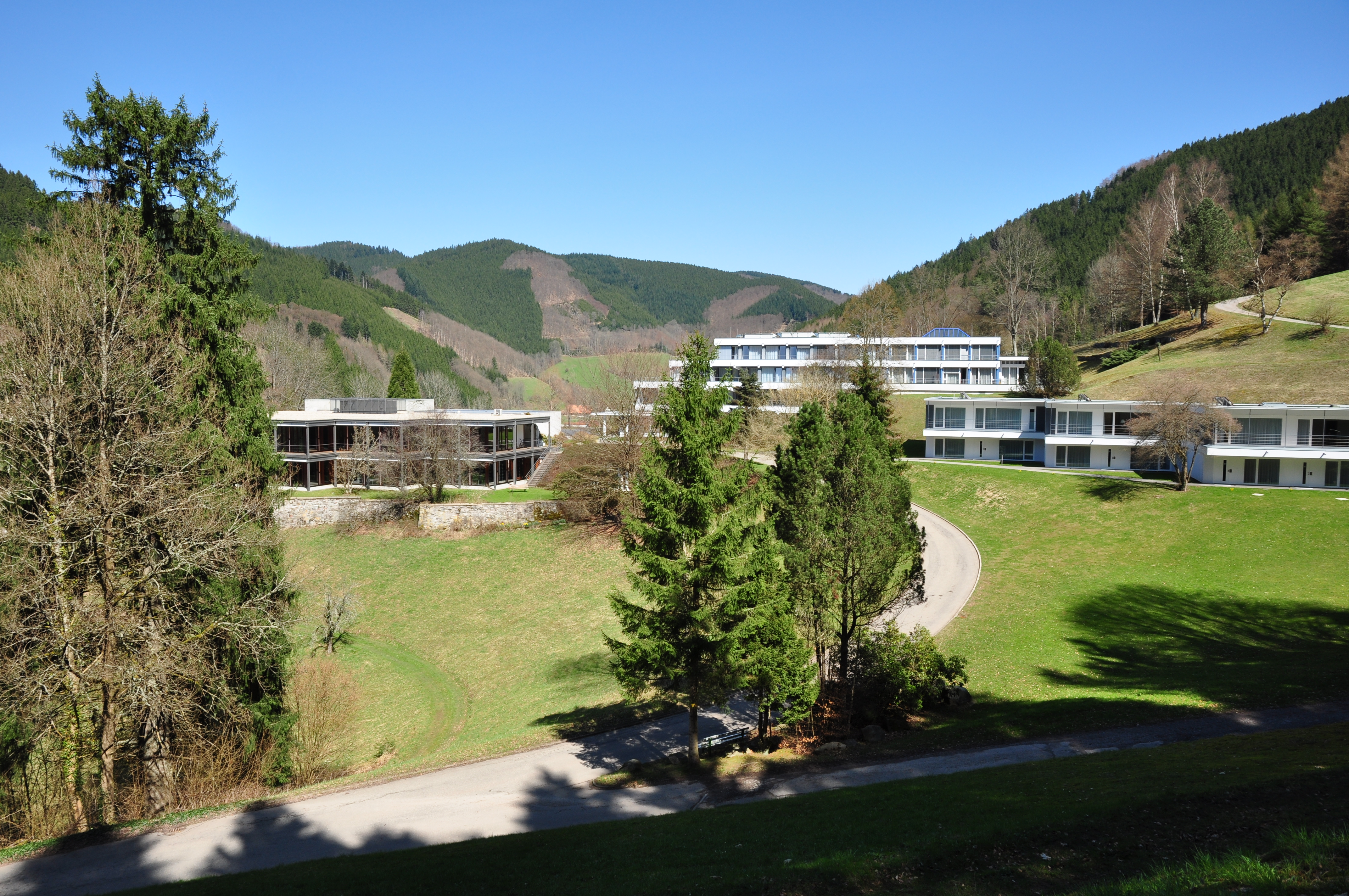 A view of the MFO (Mathematisches Forschungsinstitut Oberwolfach), spring 2010